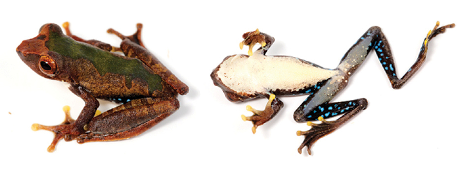 Figure 5; Rhacophorus cyanopunctatus. Pairs of photos (dorsolateral and ventral) depict the same individual.